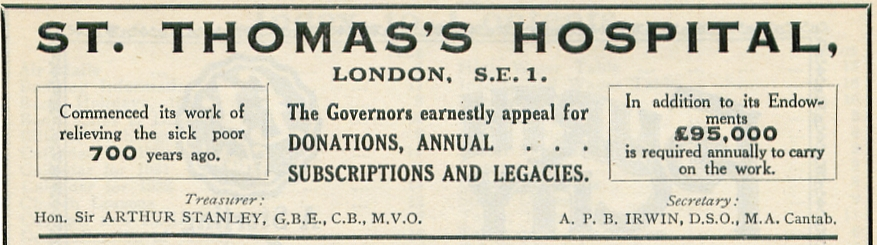 A 1931 appeal for funds for St Thomas's Hospital